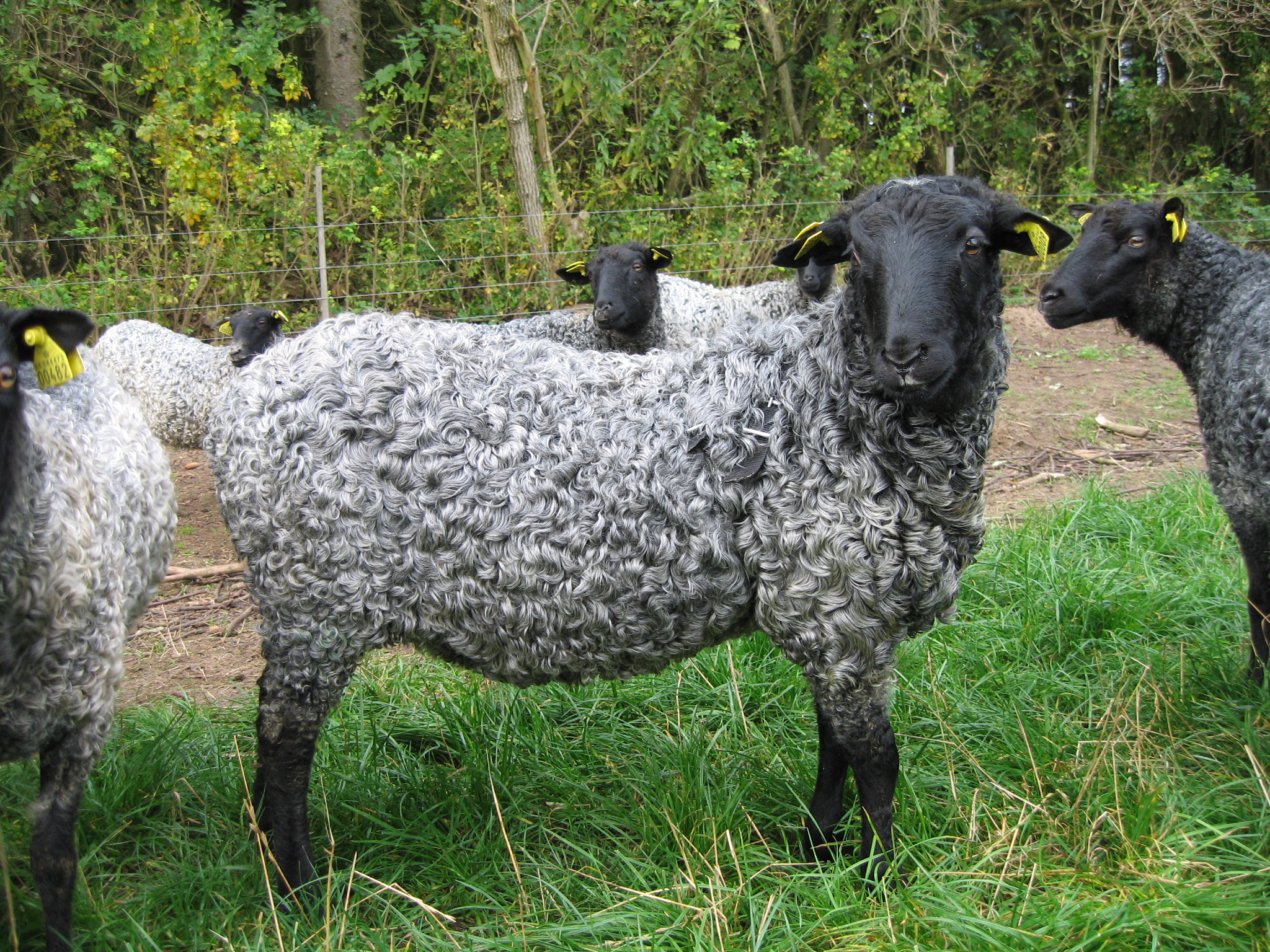 Ramlamb 114367-00009 (Montgomery) from